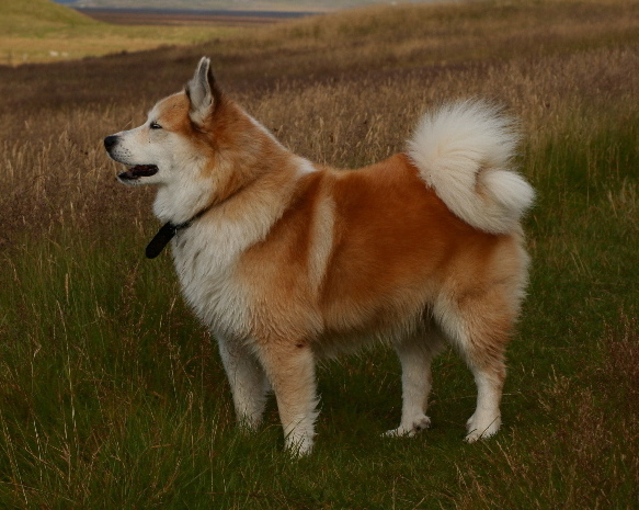 An Icelandic sheepdog.